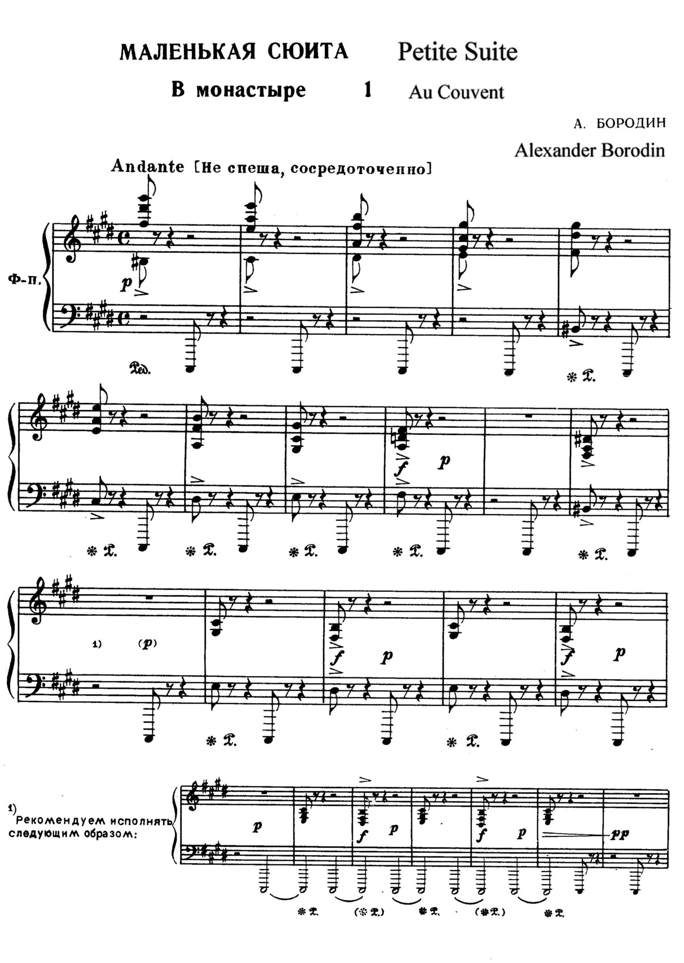 Alexander Borodin Malenkaya_Suita_1-1.jpg